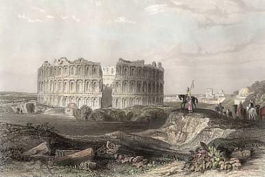 Steel engraving of Amphitheatre of El Jem by Rouargue. 1843. 15x10cm.